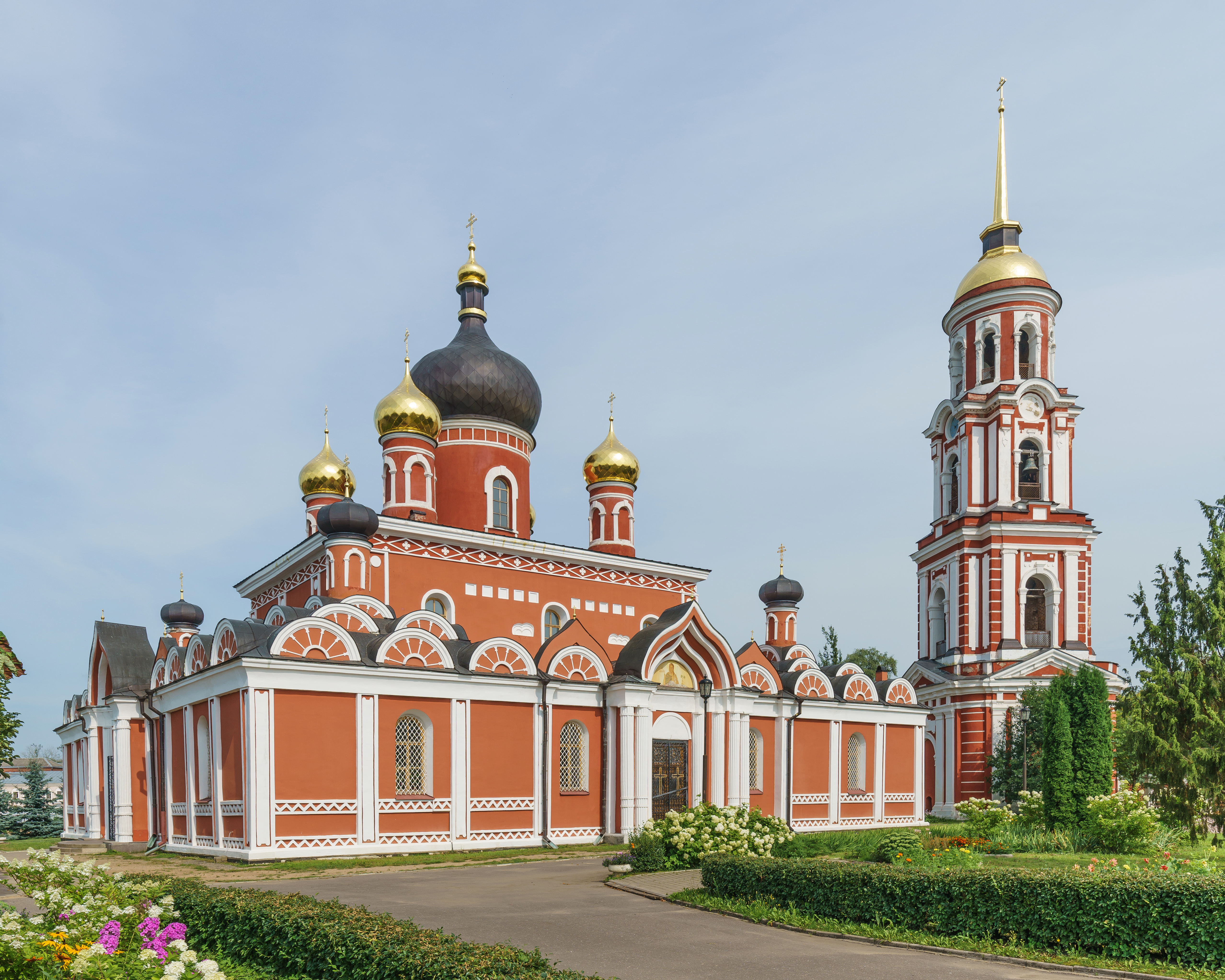 Cathedral of Resurrection of Christ in Staraya Russa, Novgorod Oblast, Russia